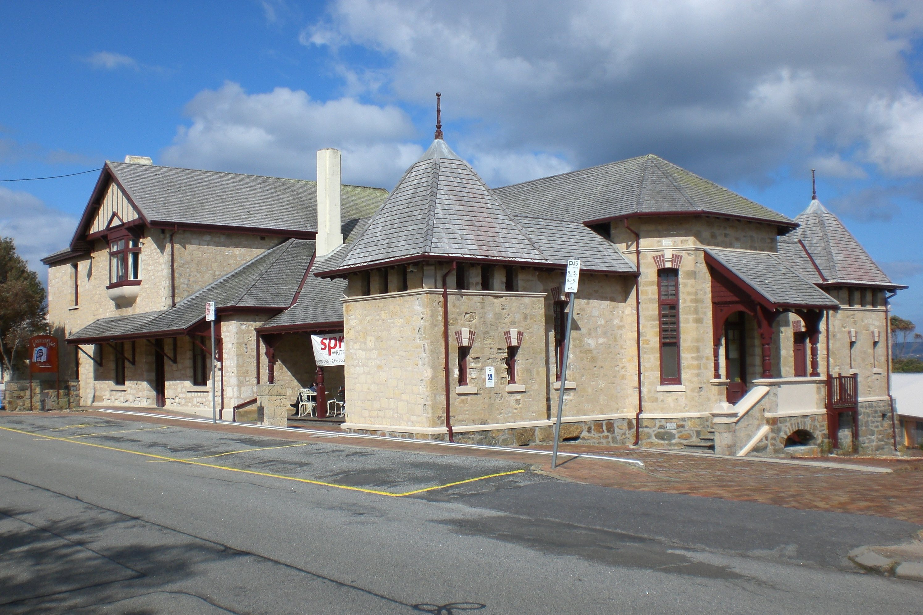 The former hospital on Vancouver Street in Albany, Western Australia. The building was designed by George Temple-Poole. It is now occupied by the Vancouver Arts Centre.